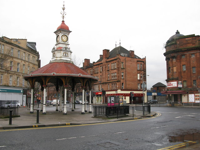 Bridgeton Cross Bridgeton Cross's best known landmark is 'The Umbrella' which with its clock tower is 50 feet high. It was originally built to shelter the unemployed in 1875. The road in the background is the A74 looking in the direction of Glasgow City Centre. The road in the foreground leads to roads to Rutherglen and Cambuslang.